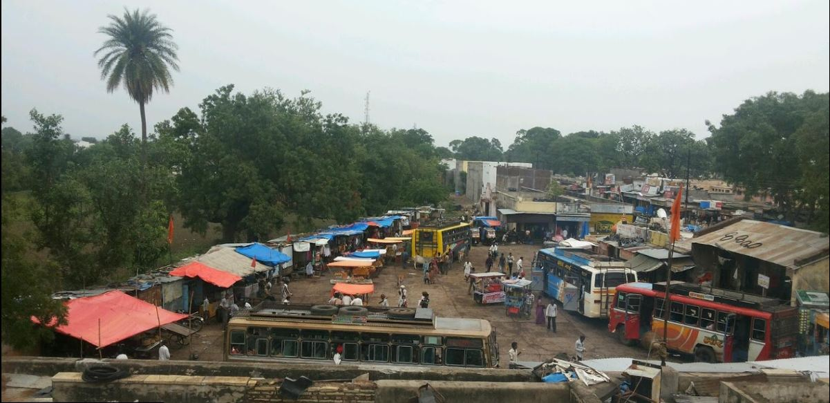 An image of Bus Station at Manasa, MP